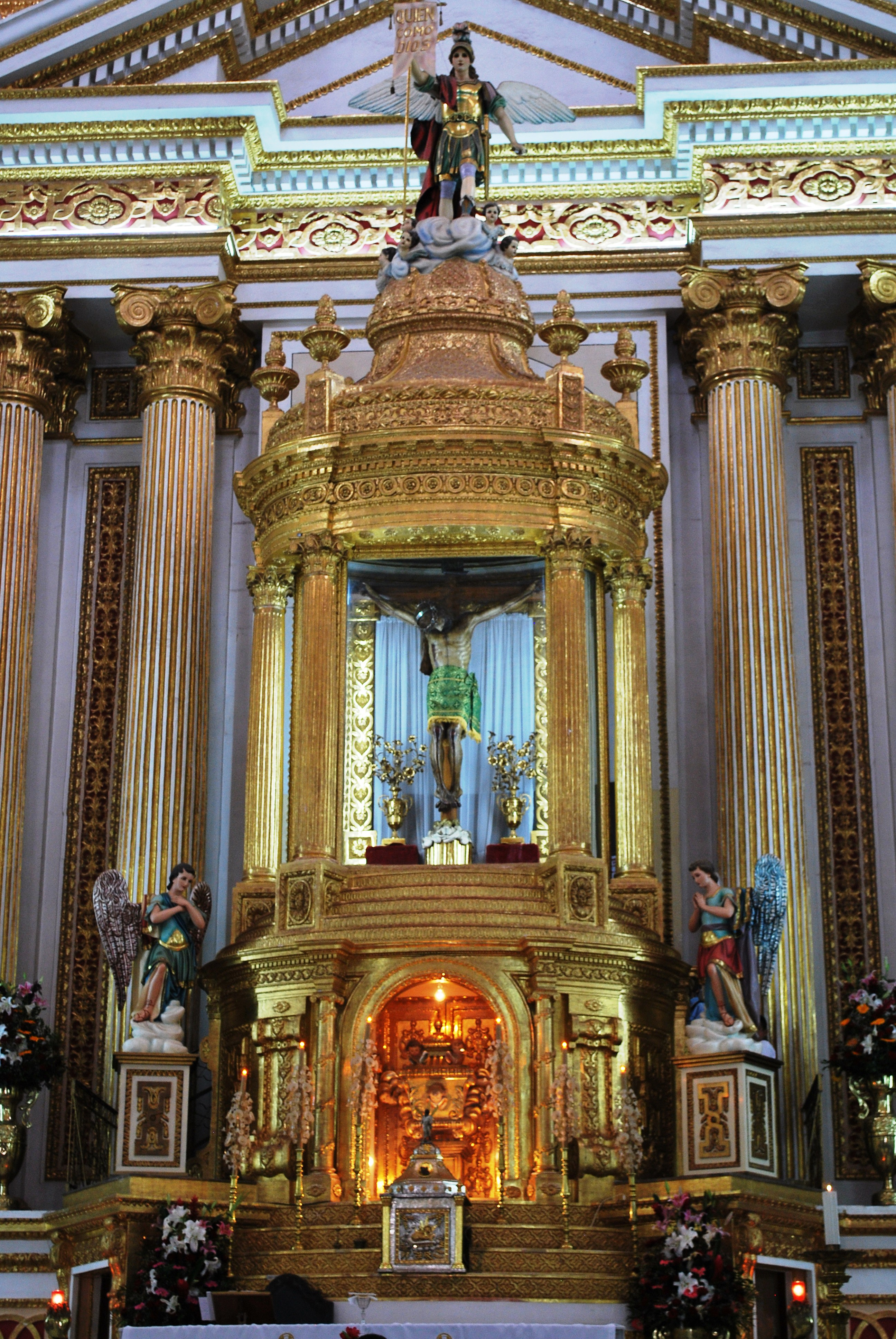 Main altar of the church of the Sanctuary of Chalma in Chalma, Malinalco, Mexico State